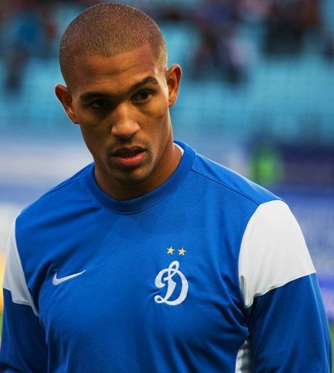 William Vainqueur